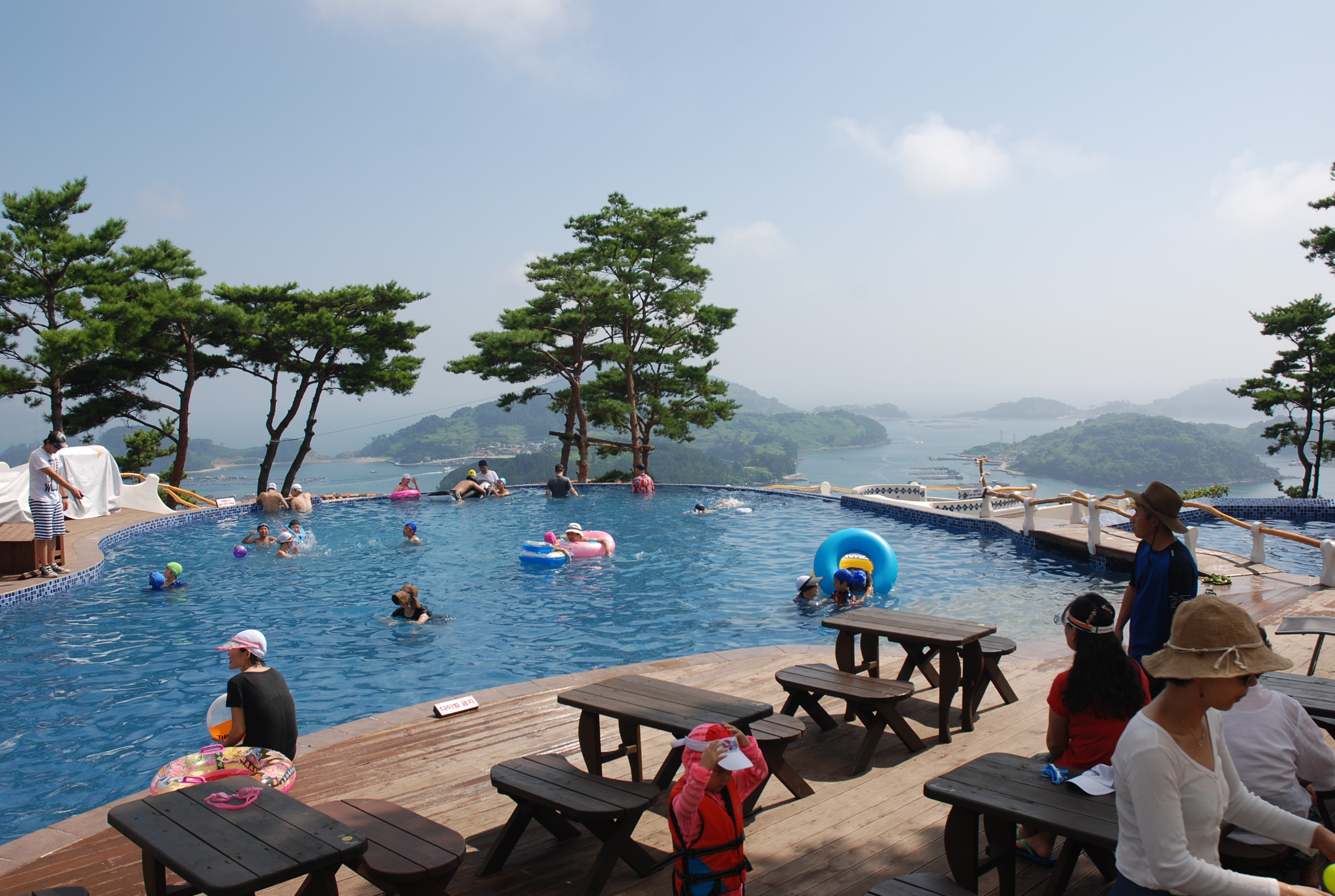 Scenery from Tongyeong ES Resort